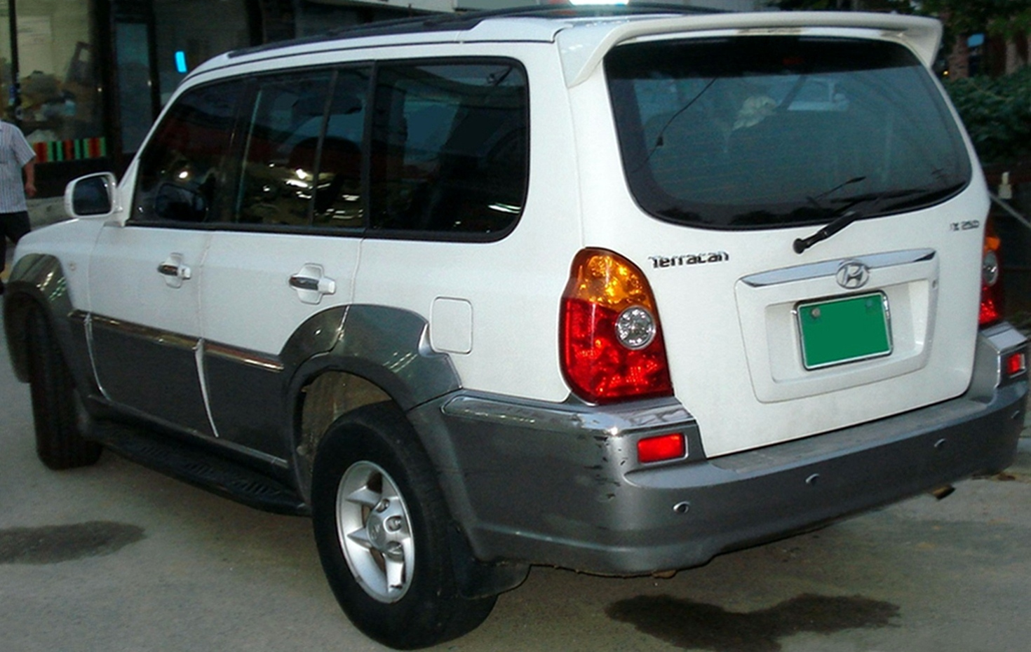 Hyundai Terracan